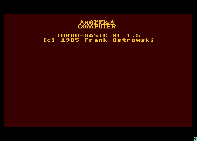 Screen capture of Turbo-BASIC XL 1.5 for Atari computers by Frank Ostrowski published in 1985 by the german language Happy Computer Magazine.